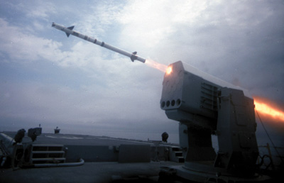 RIM-116 Rolling Airframe Missile